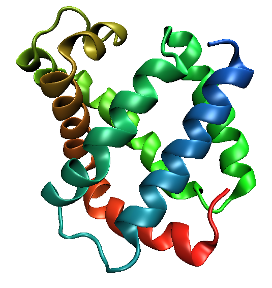 Protein structure of myoglobin from the mollusc Aplysia limacina (PDB ID 1MBA) illustrating the eight-helix globin fold.